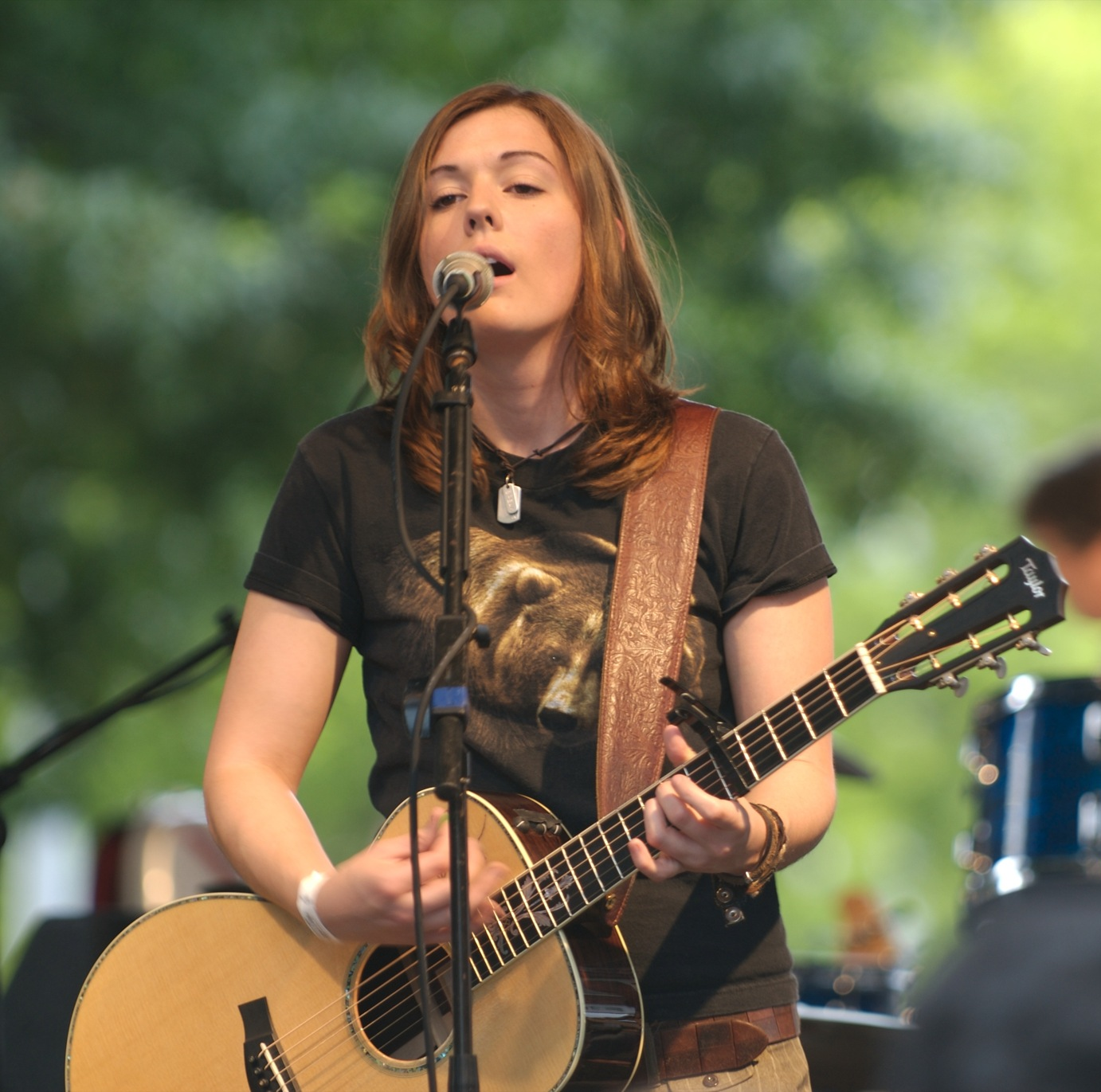 Brandi Carlile on Stage at CITY STAGES 2006